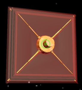 Terrestrial planet finder interferometer Collector